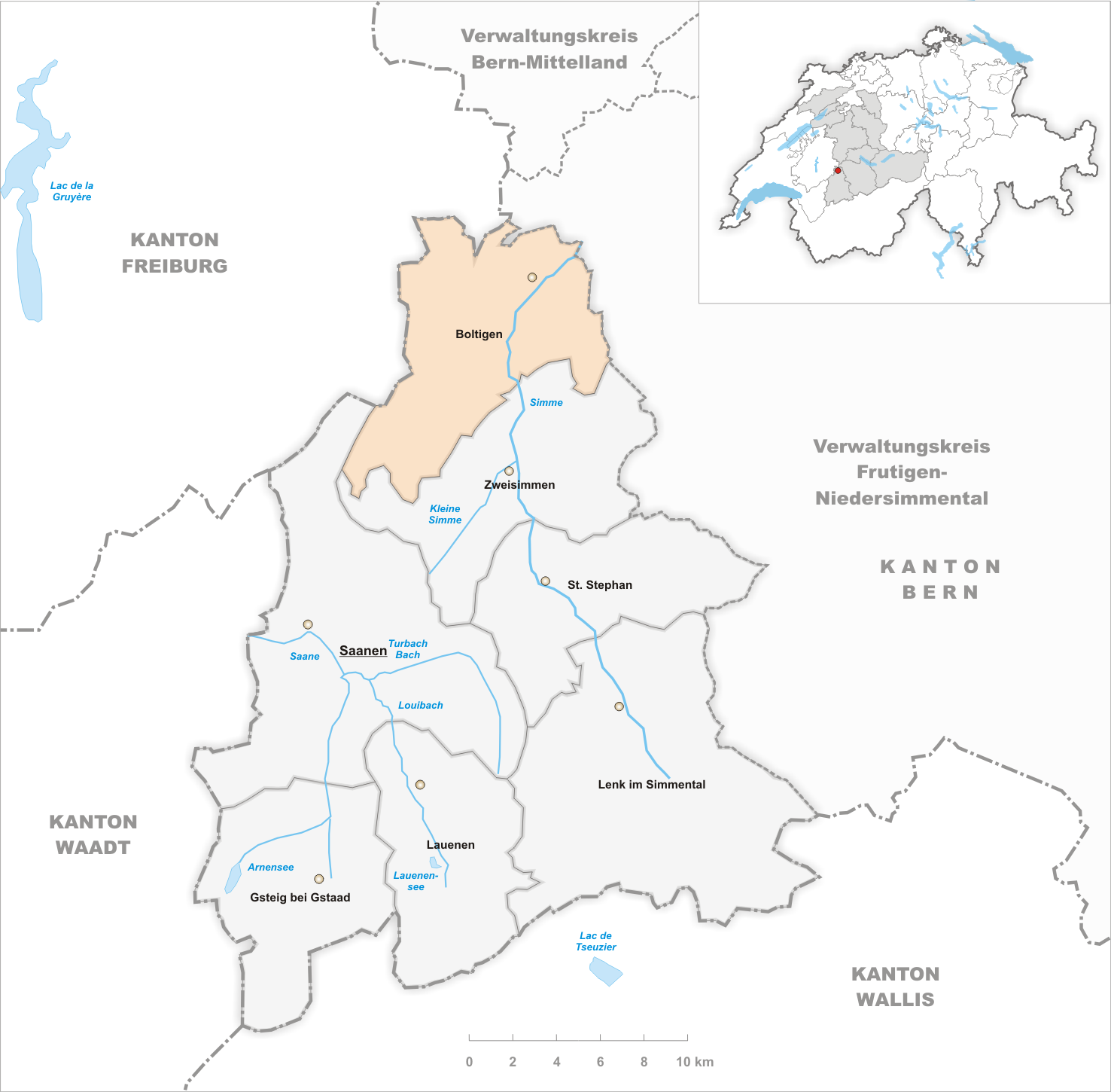 Municipality Boltigen